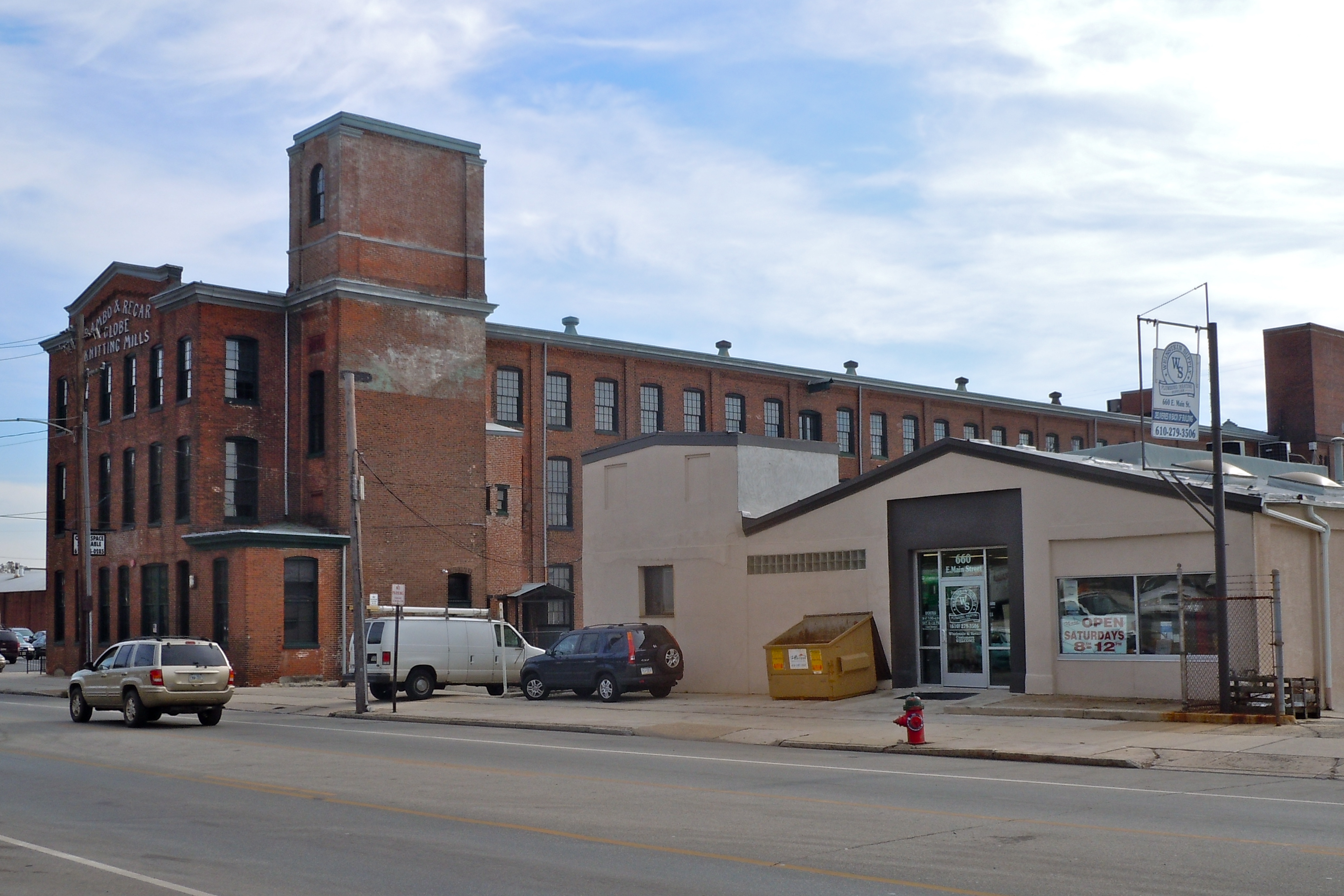 660 East Main, Globe Knitting Mills on the NRHP since January 31, 2003. This building at 660, 2nd building at 694 East Main Street, Norristown, Montgomery County, Pennsylvania